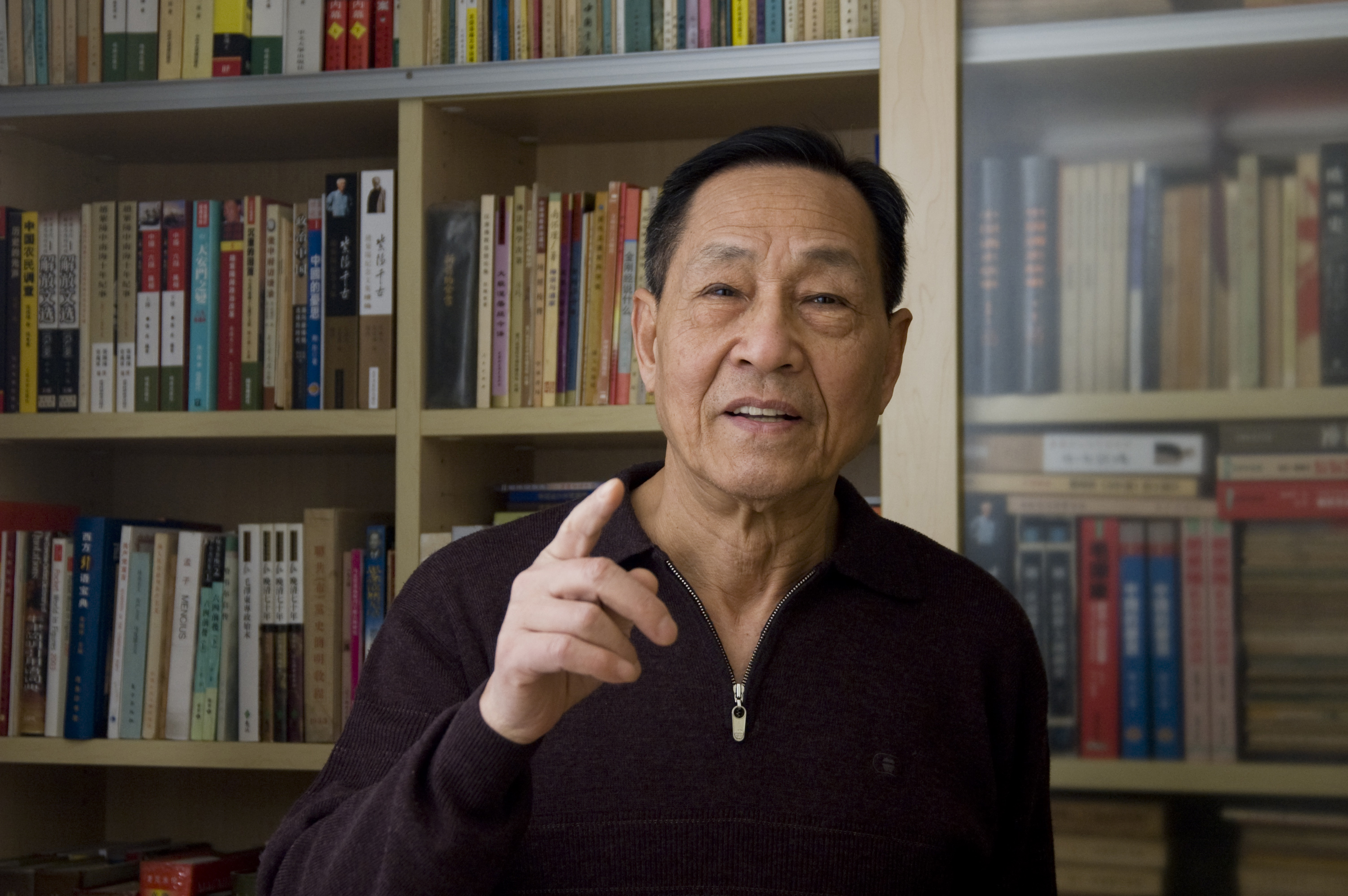 Bao Tong was the highest government official to be imprisoned after the Tiananmen Square protests of 1989. He spent 7 years in Qincheng Prison, and has lived under tight surveillance ever since. He continues nevertheless to be one of the most outspoken critics of the government.